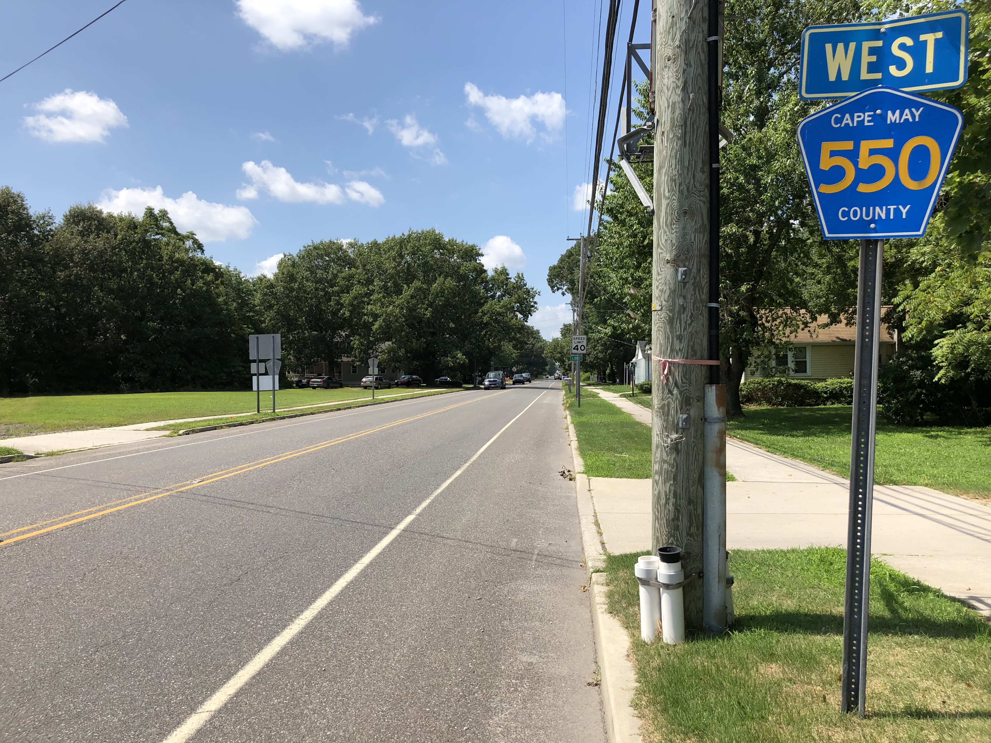 View west along Cape May County Route 550 (Webster Street) just west of Cape May County Route 557 (Washington Avenue) in Woodbine, Cape May County, New Jersey